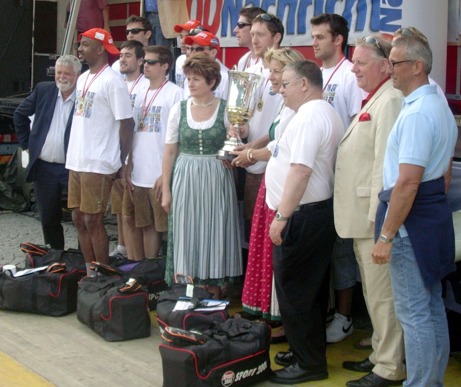 Allianz Swans Gmunden, Austria Basketball Championship winner in 2007.